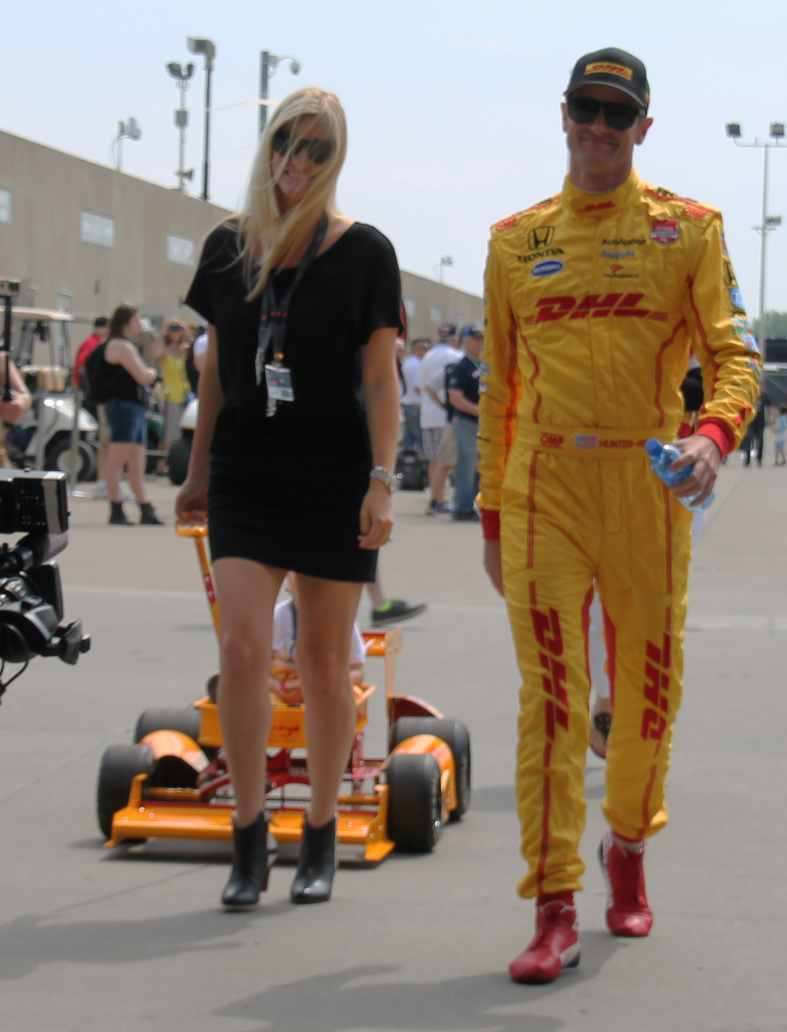 Ryan Hunter-Reay with his wife at the 2015 Indianapolis 500